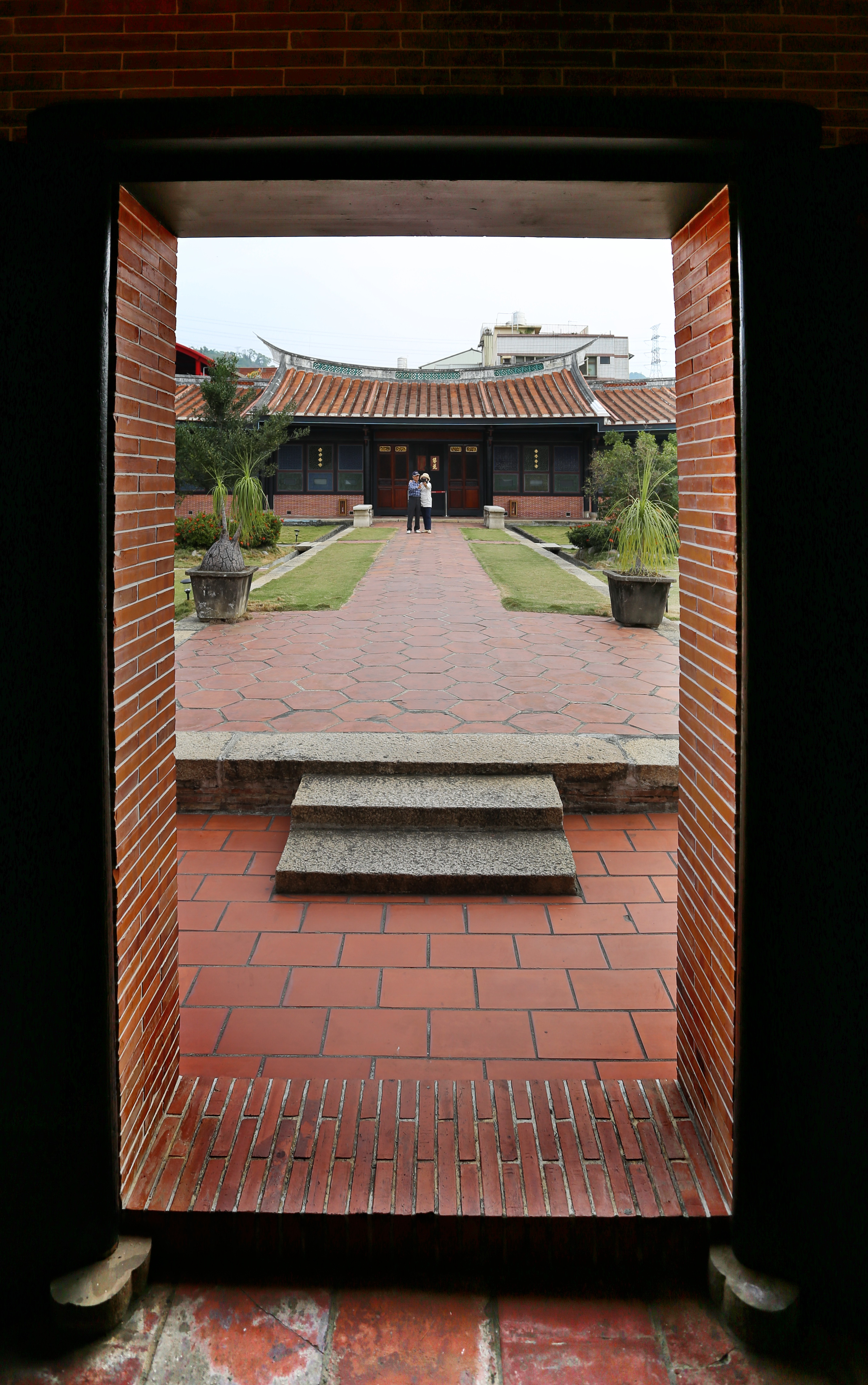 Wufeng Lin Family Mansion and Garden, Residence of the Palace Guard, Courtyard in Front of the Fifth Hall, Wufeng District, Taichung City, Taiwan.